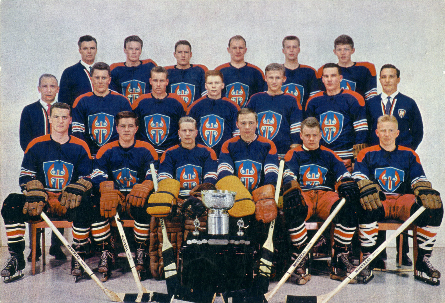 Tappara: ice hockey Finnish champions in 1961